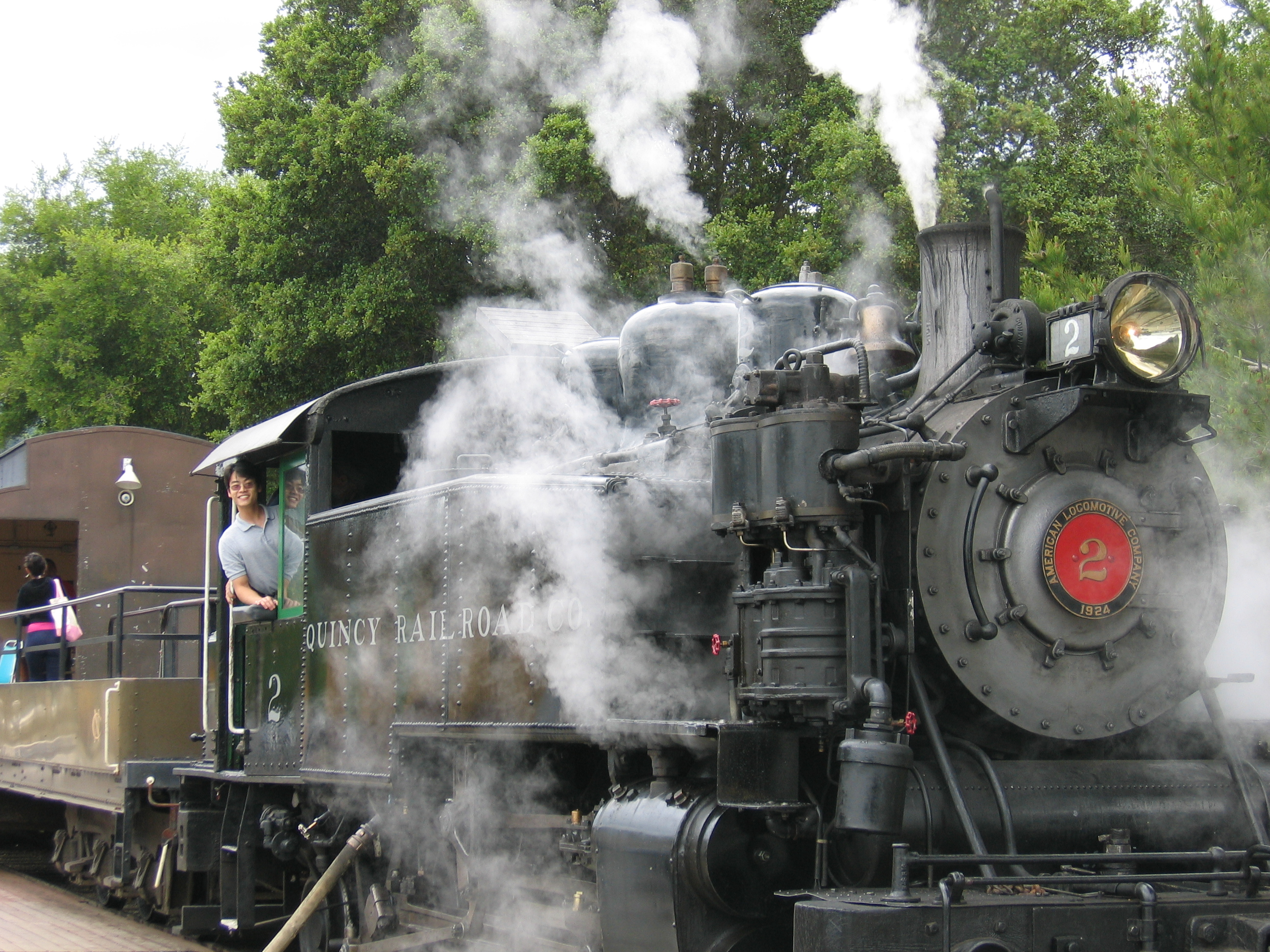 The Quincy 2 (train) in Sunol. 2005.